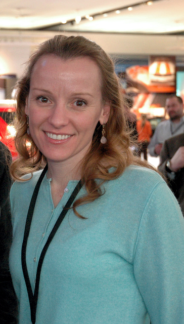 Chelsea Sexton from NAIAS 2007 in Detroit.